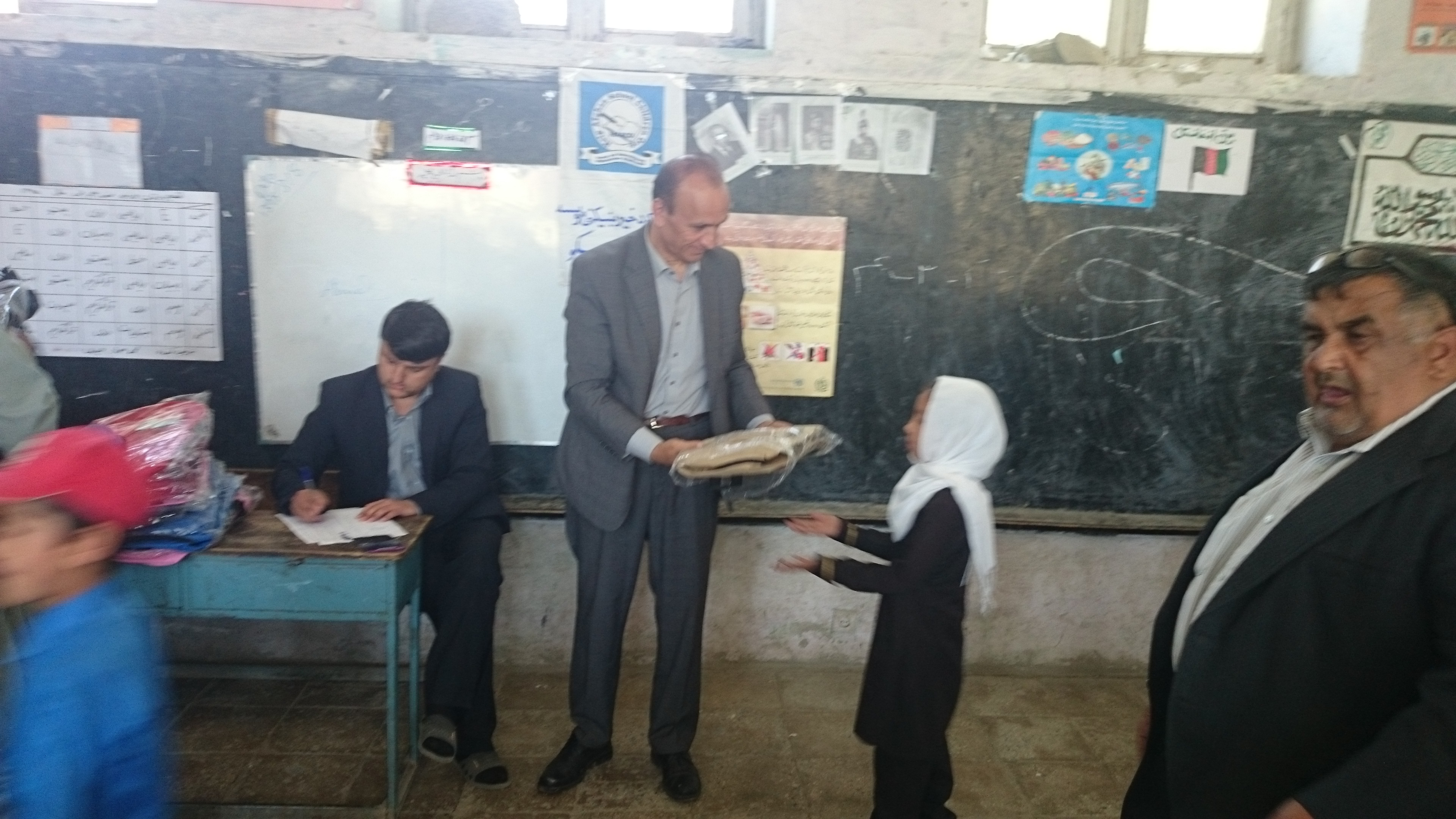 HASCO Founder Mr.Hafizullah Khaled presenting Backpack to an Afghan school girl.